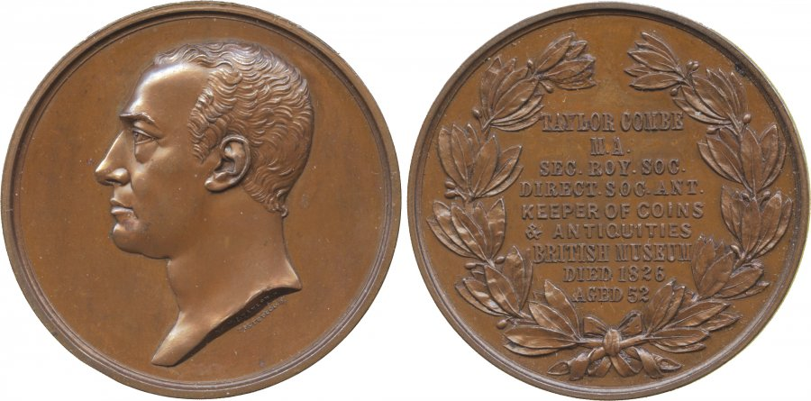 Commemorative medals. British Historical Medals. Taylor Combe, Numismatist and Archaeologist, Bronze Medal, 1826, by William Joseph Taylor, bust of Taylor Combe to left, rev inscription in wreath, 45mm (BHM 1258; E 1184; English Personal Medals 1890, 6 9). Taylor Combe (1774-1826) was keeper of Coins and Antiquities at the British Museum, long before the two departments were split into separate entities. Taylor based the portrait of Combe on one modelled by Benedetto Pistrucci, and the medal is signed by both artists.